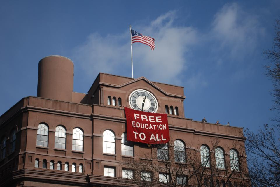 Students hang banner below the historic clock tower of the Cooper Union Foundation building in New York City during a december occupation in protest of the possibility of implementing tuition in the historically free school.